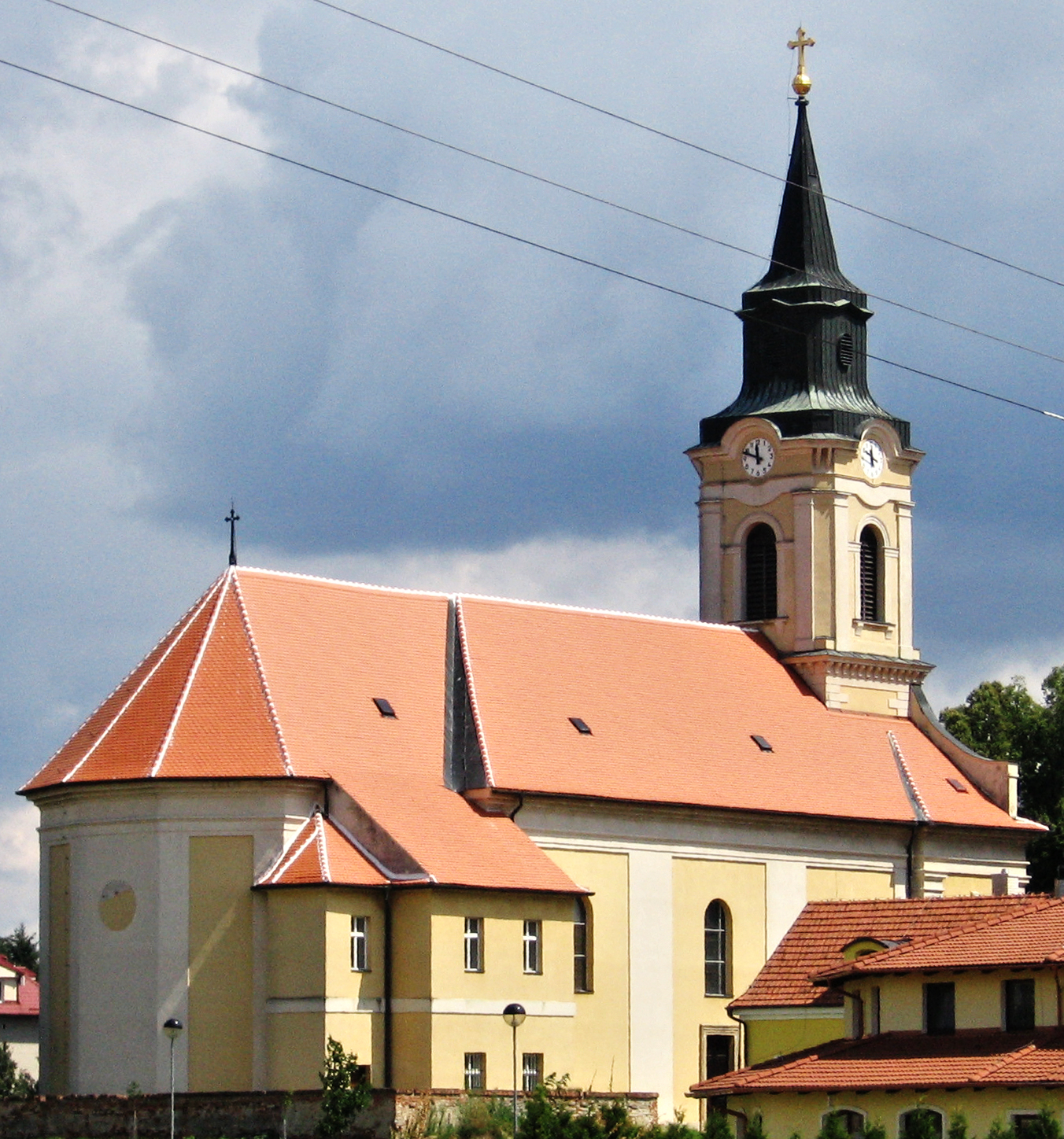 Saints Cyril and Methodius churches in Ratíškovice, Hodonín District, Czech Republic